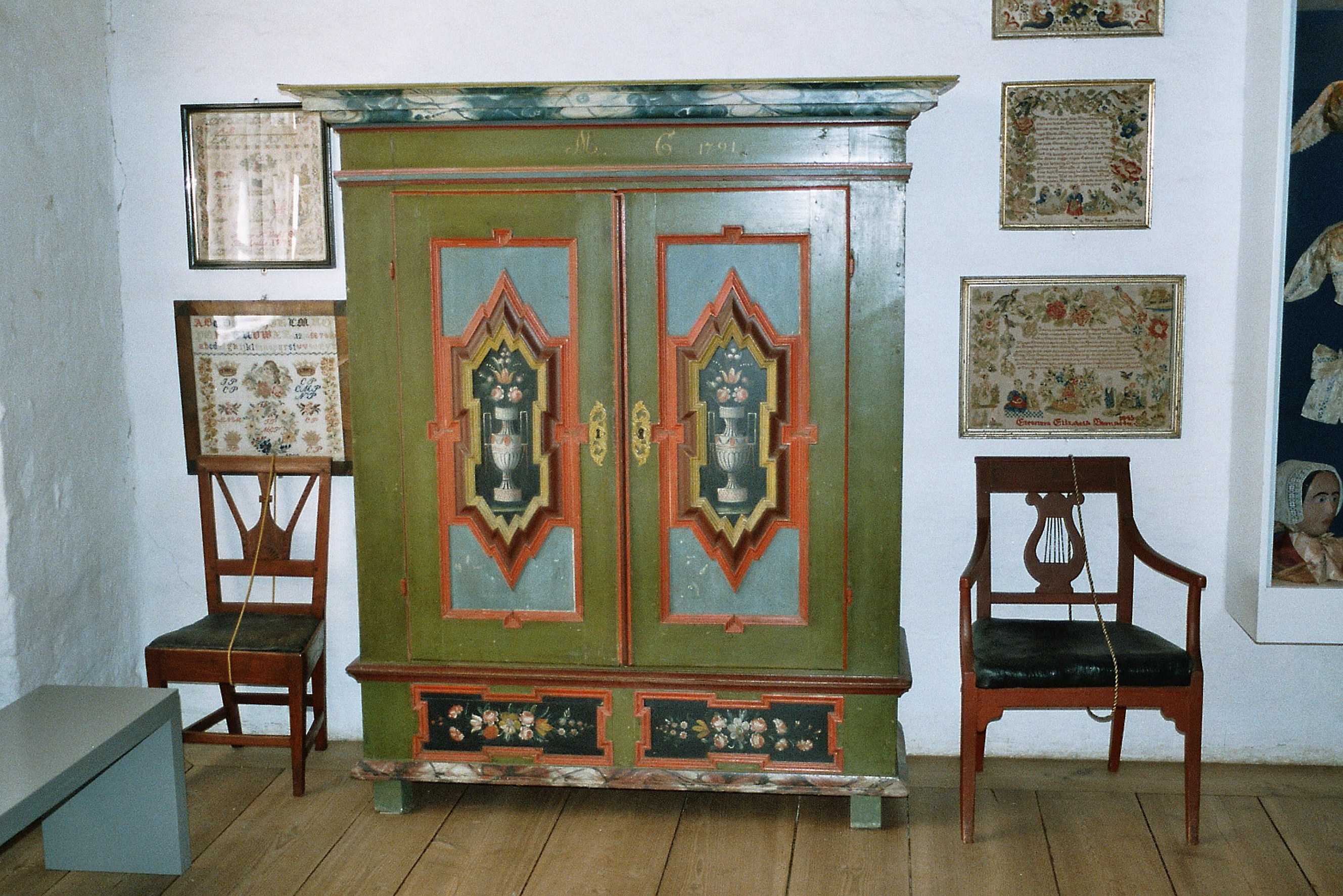 Sønderborg, inside the castle museum